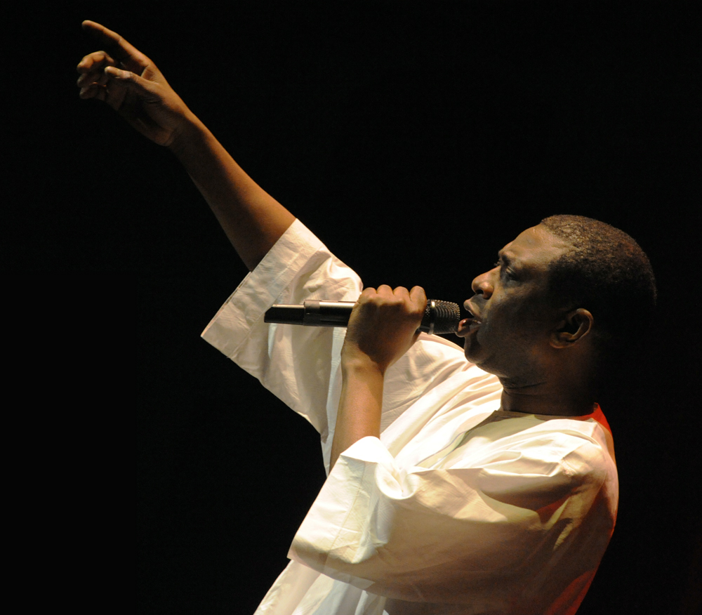 Youssou N'dour from Senegal performing in Warszawa, Poland during the 5th Cross Culture Festival